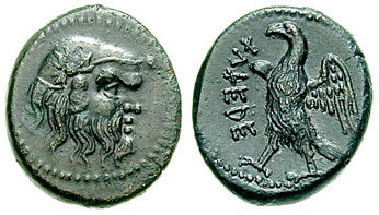 Umbria, Tuder (now Todi. Circa 280-240 BC. Æ 22mm (4.66 gm). Bearded head of Selinos right, wearing wreath of ivy tVtEDE, eagle standing left. SNG ANS 105-107; BMC Italy pg. 39, 1ff; SNG Copenhagen 75; SNG Morcom 52; Laffaille -.